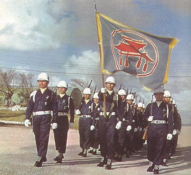 Ryukyuan Security Guard Regiment